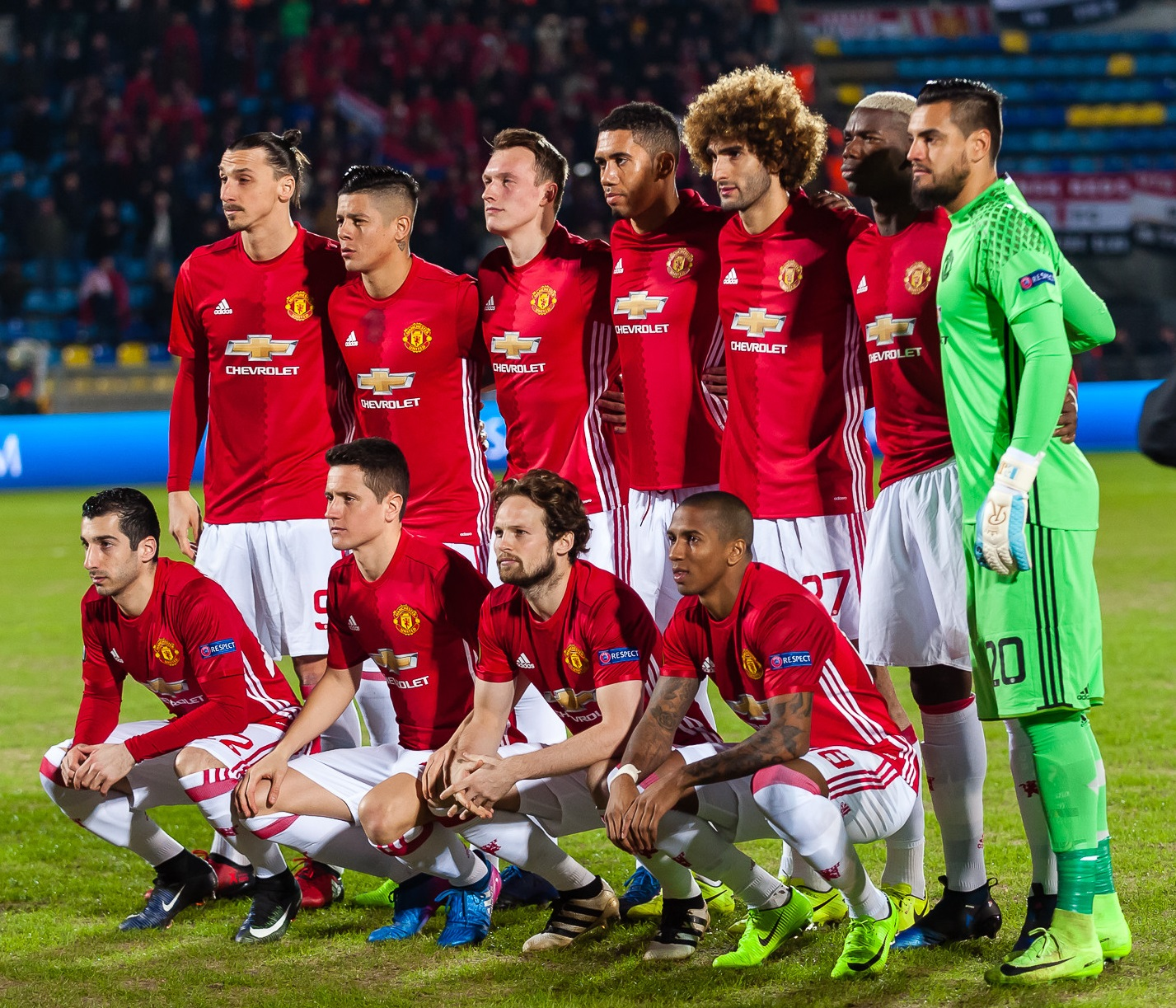 Manchester United team before UEFA Europa league match in Rostov, Russia.